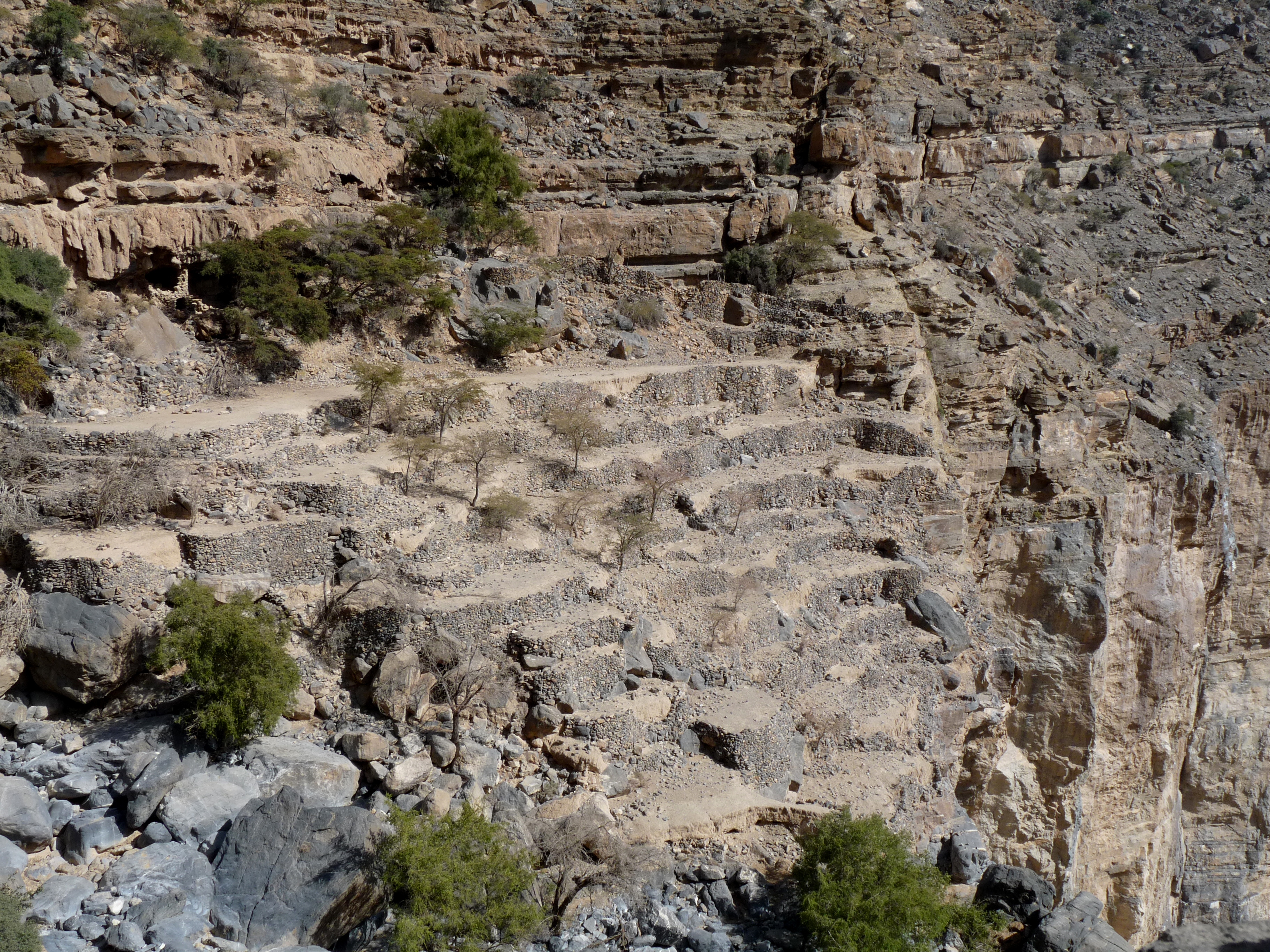 Former agricultural terraces in Sap Bani Khamis (abandoned village in Northern Oman, Jebel Shams)